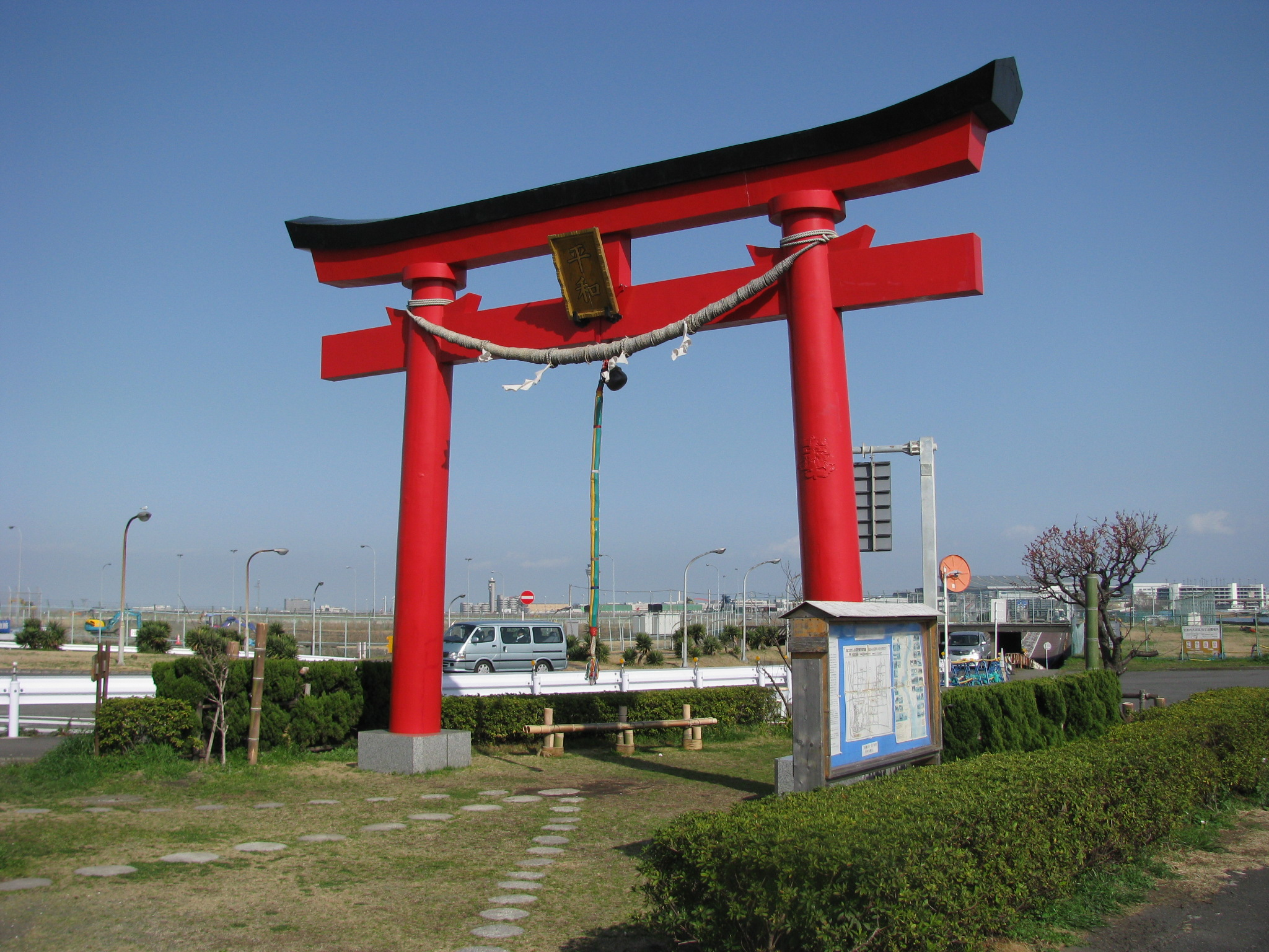 The Otorii is old torii of The Anamori Inari Jinja (Anamori Inari Shrine). Otorii is located in west entrance of Tokyo International Airport.